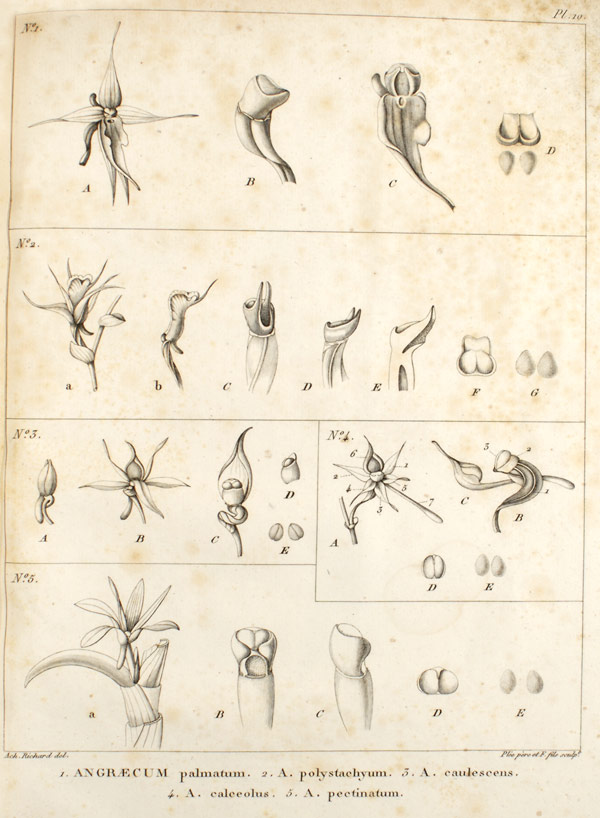 Angraecum palmatum synonym Angraecum palmiforme